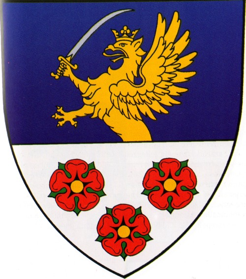 Coat of arms of Bedegkér, Hungary